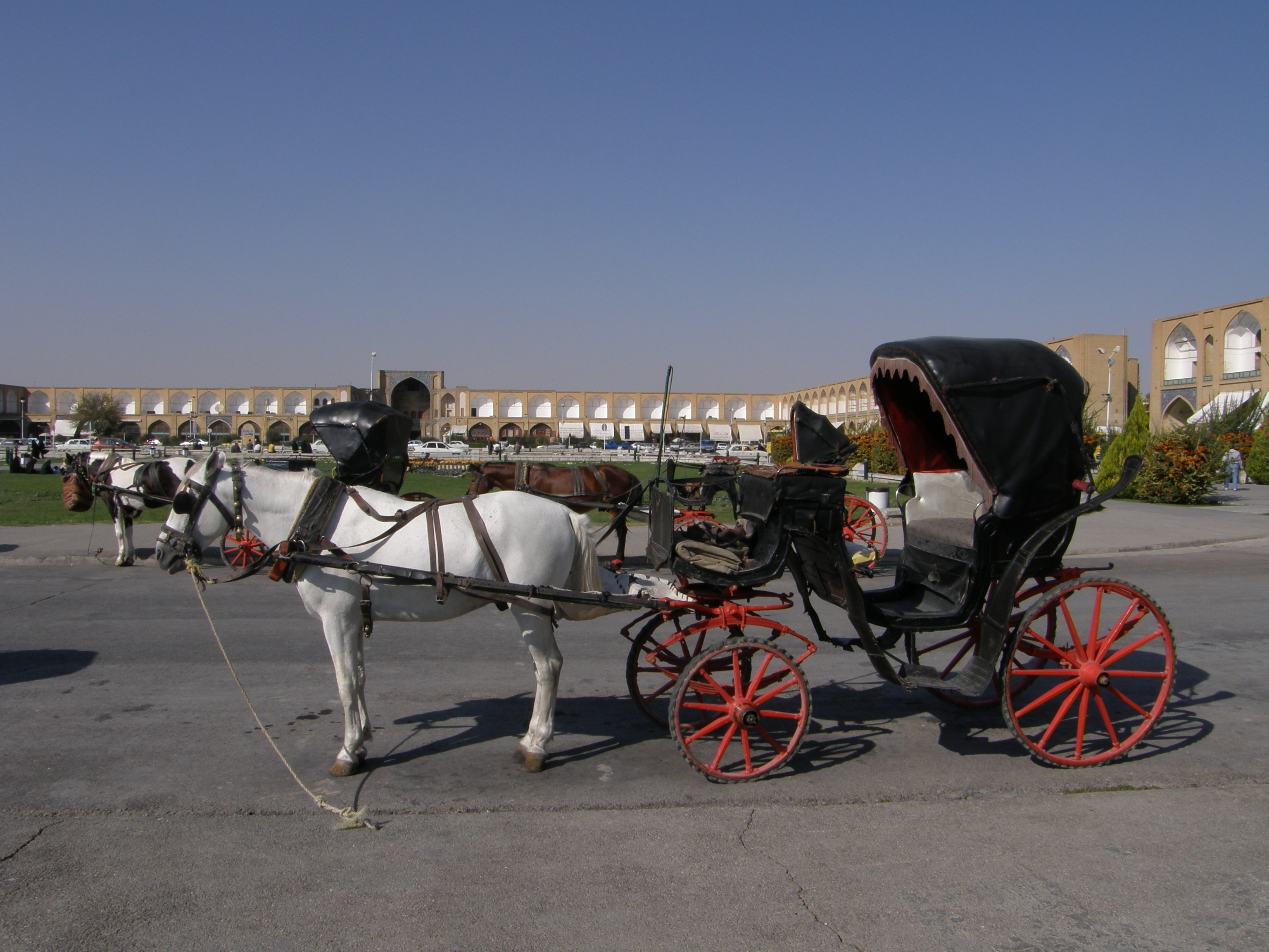 Horse and buggy (Naqsh-i Jahan Square)